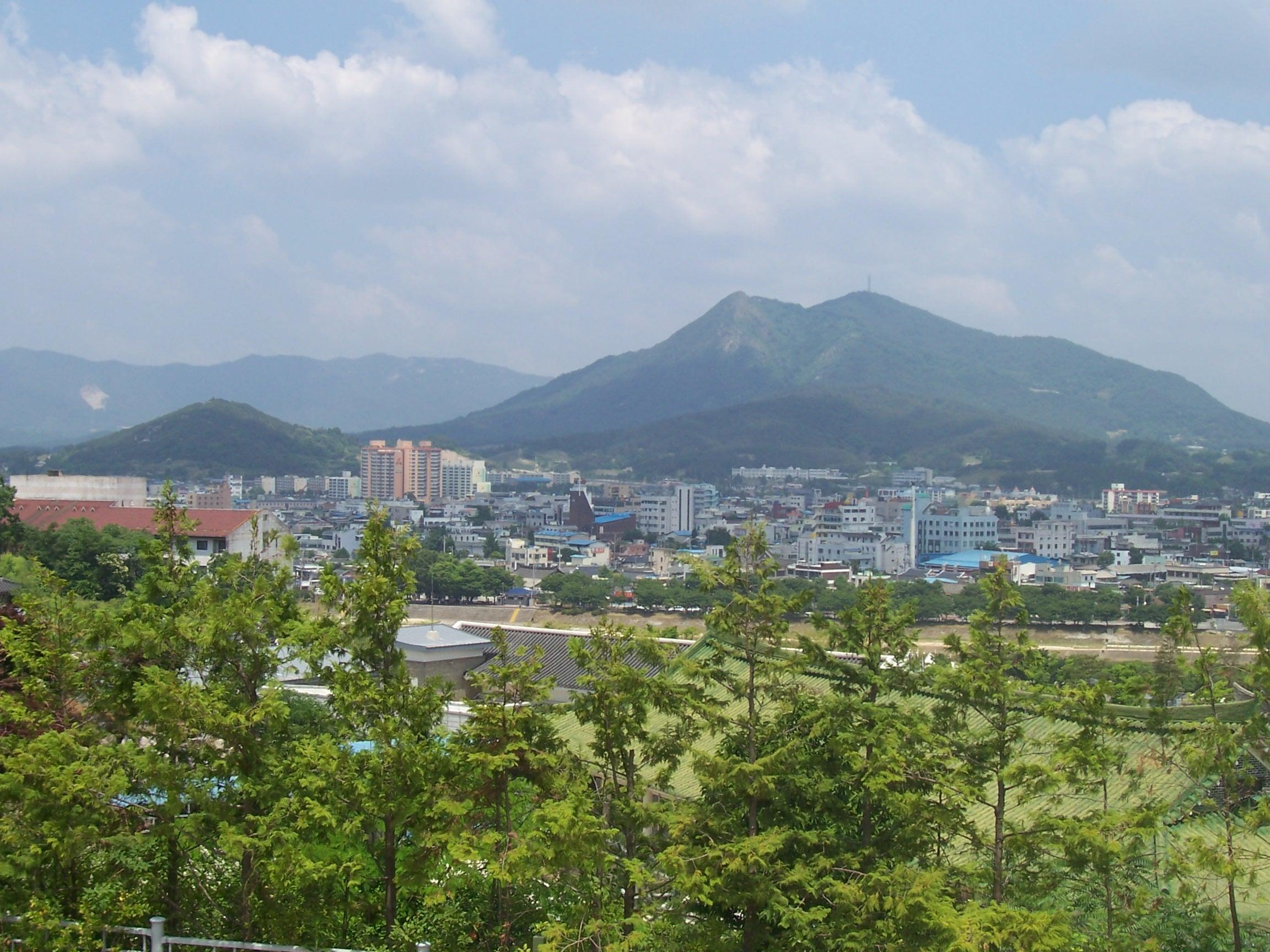 My pictures